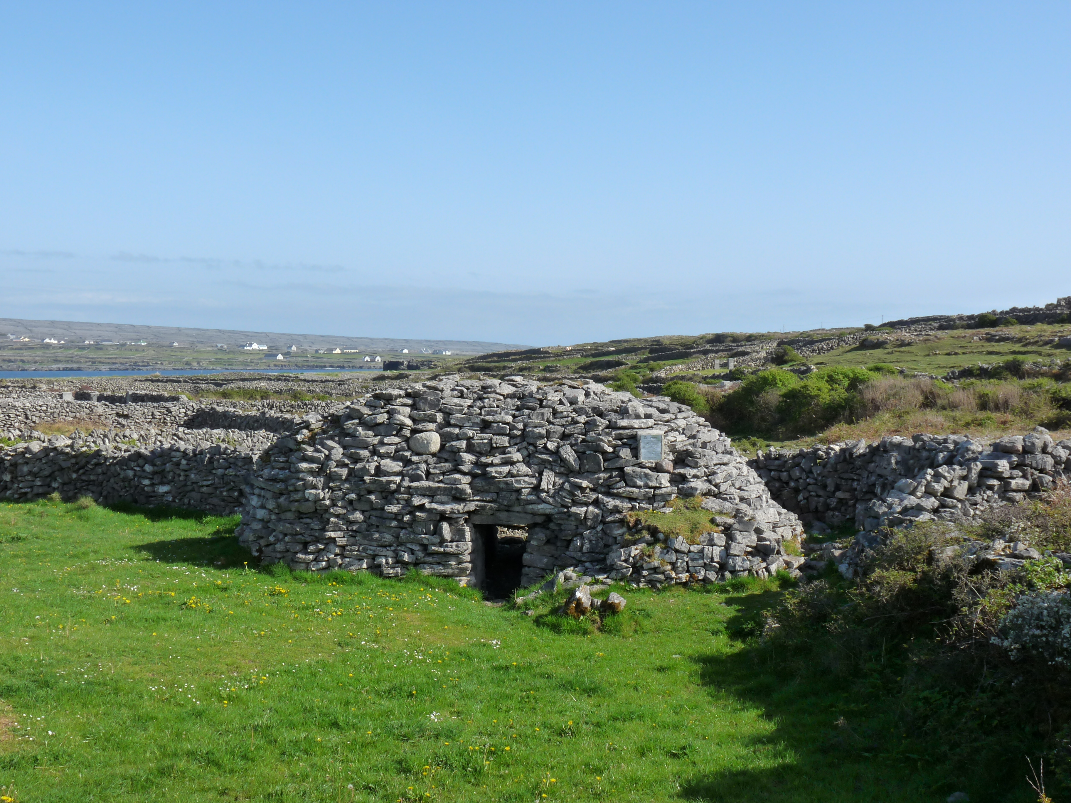 Clochan na Carraige, County Galway